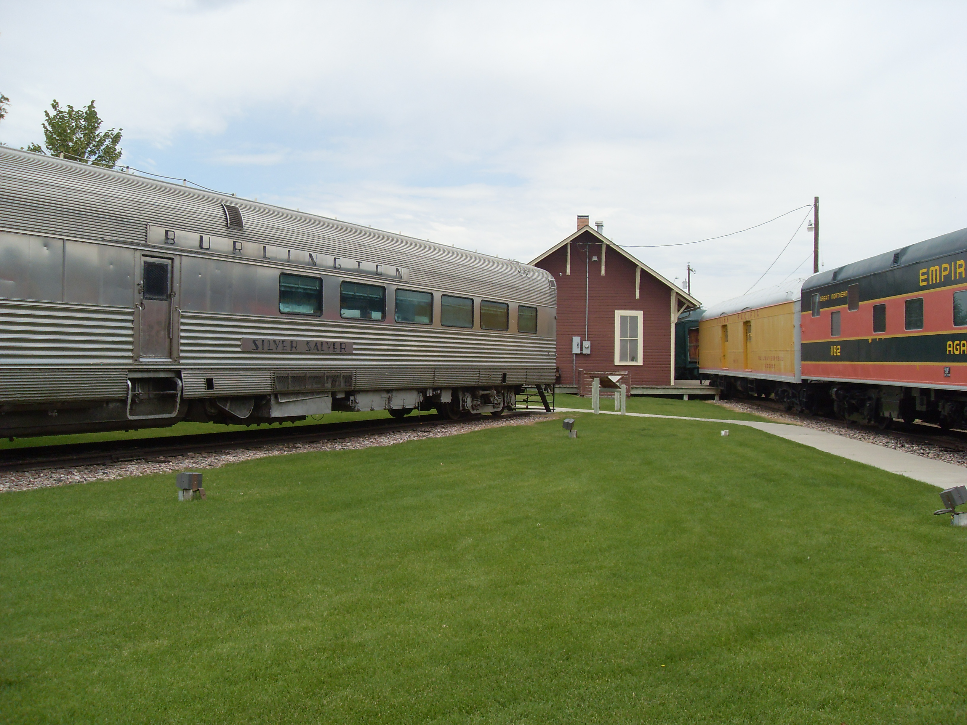 Dining car Silver Salver part of the exhibition of the Douglas Railroad Interpretive Center in Douglas, Wyoming Diner of Twin Cities Zephyr